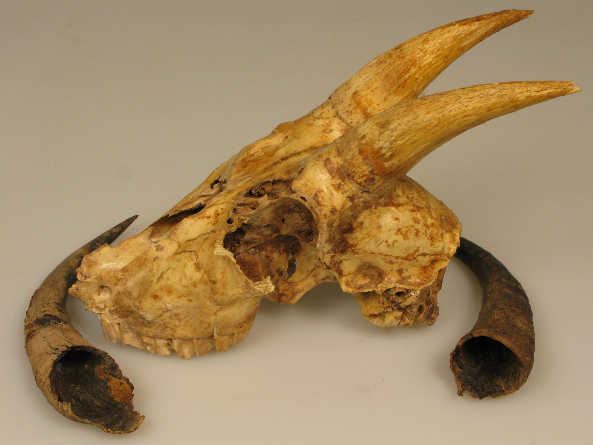 Oreamnos harringtoni. Mountain goat. Bone cranium with horns and sheaths, and teeth. Tests indicate that Harrington's mountain goat occupied the Grand Canyon for at least 19,000 years prior to becoming extinct by 11,160 ± 125 radiocarbon years before present. NPS Photo.